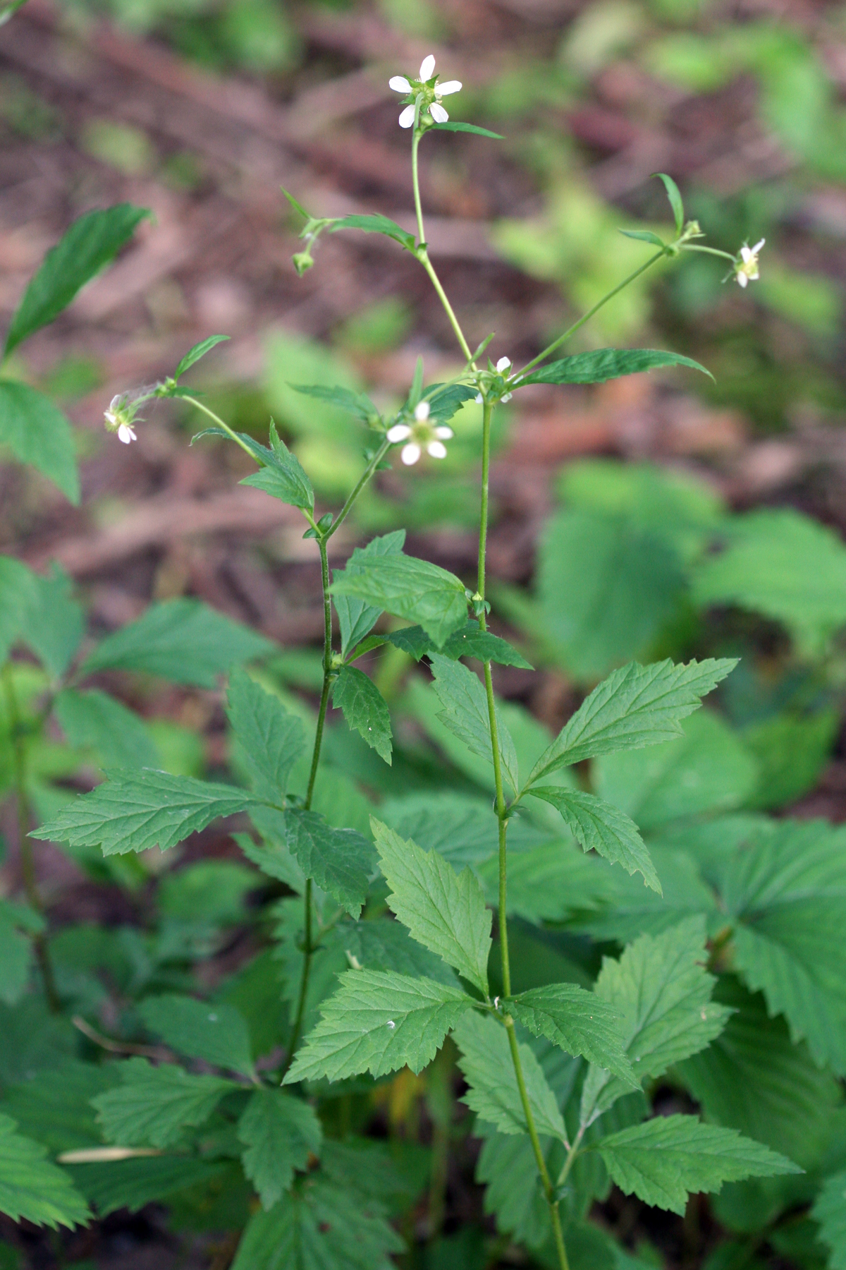 Geum canadense (white avens) photographed in the town of Skaneateles, NY